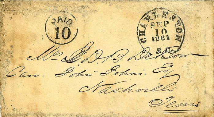 Confederate stampless cover, Charleston, 1861